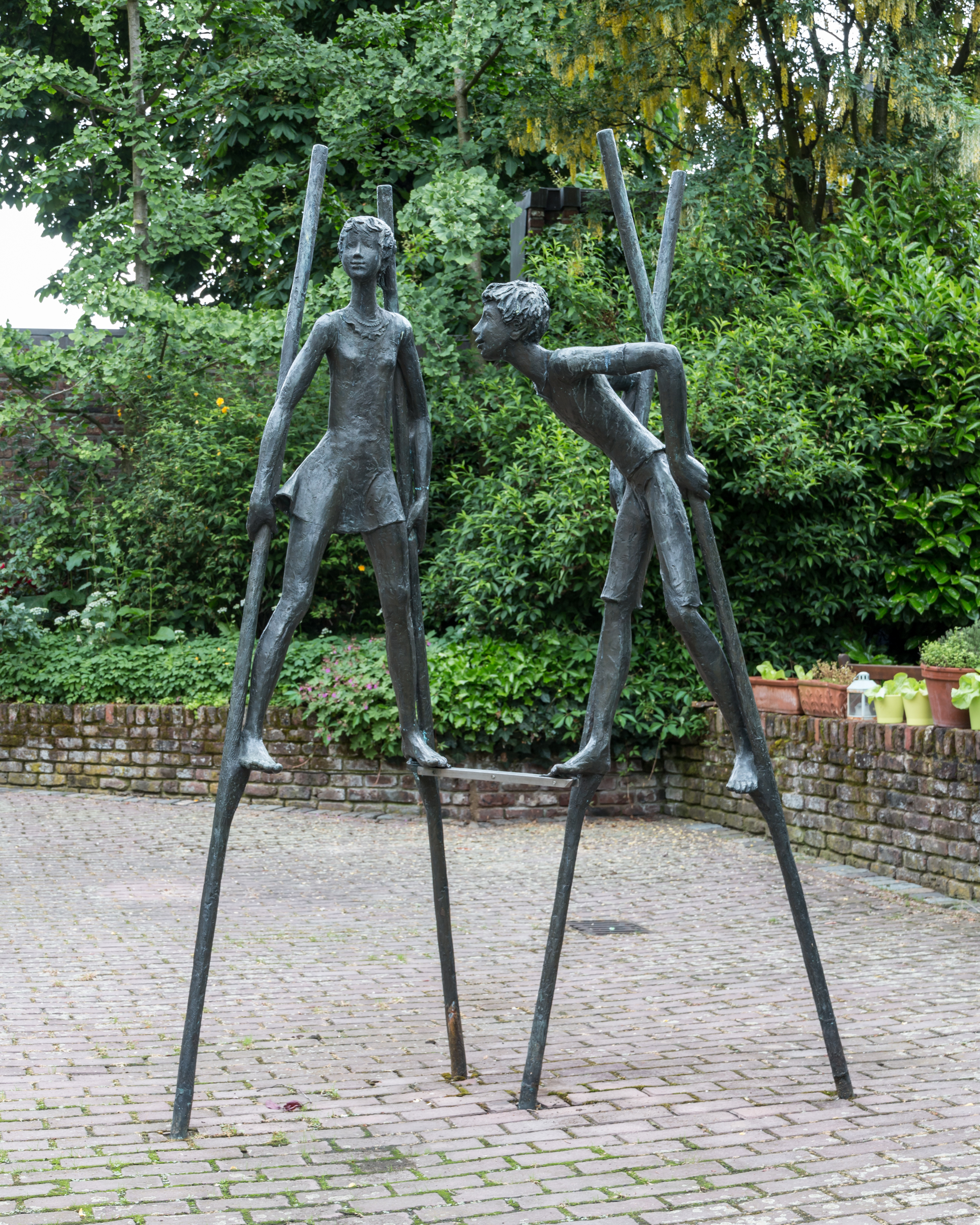 Sculpture “Stelzenläufer” (Krista Löneke-Kemmerling, 1983), Aachen, North Rhine-Westphalia, Germany Sculpture TitleStelzenläuferArtistKrista Löneke-KemmerlingDate1983